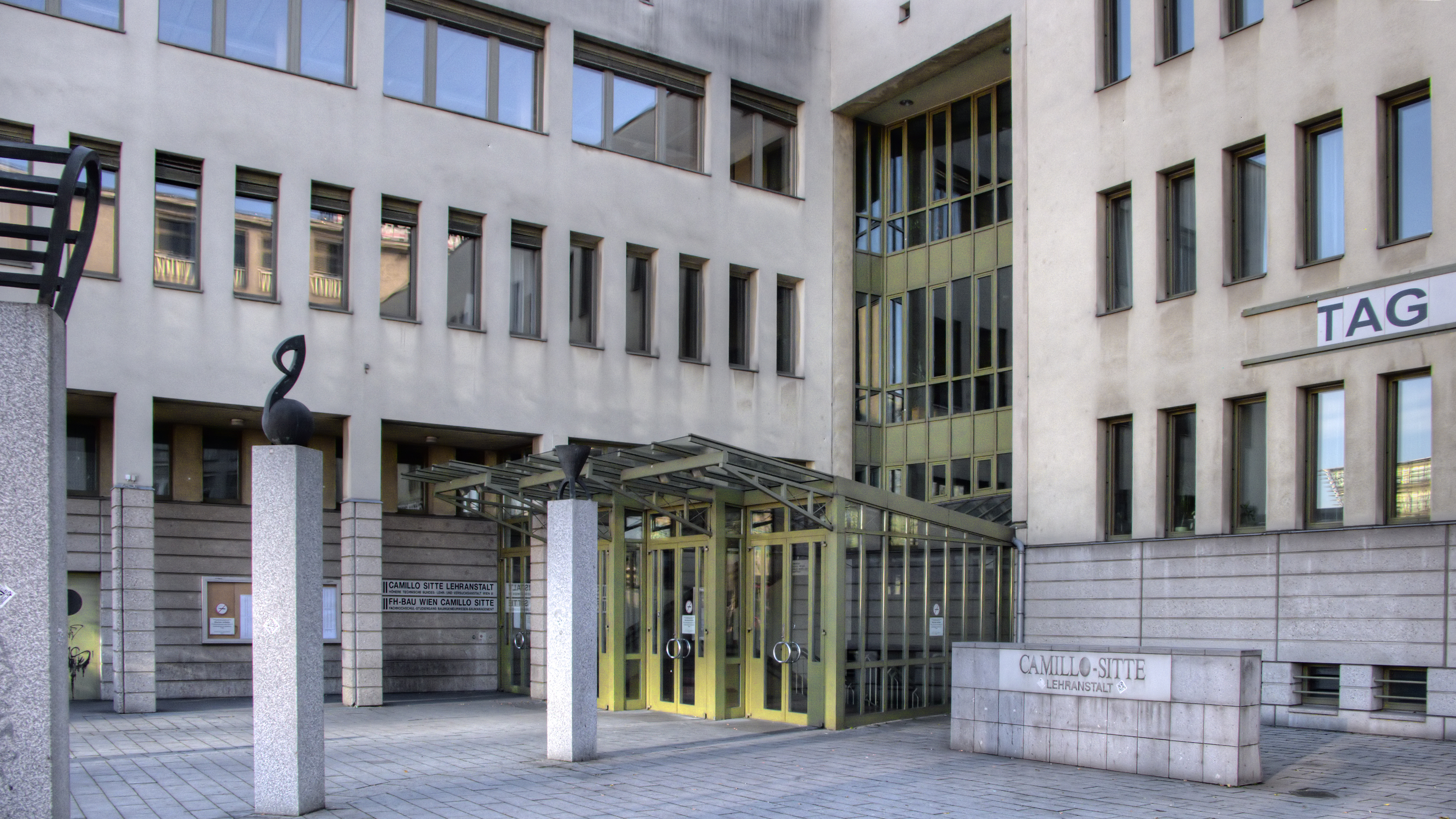 Camillo Sitte Lehranstalt in Vienna/Landstraße